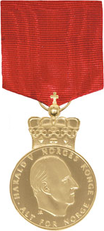 H. M. The King's Commemorative Medal in goldNorsk bokmål: H.M. Kongens erindringsmedalje i gull